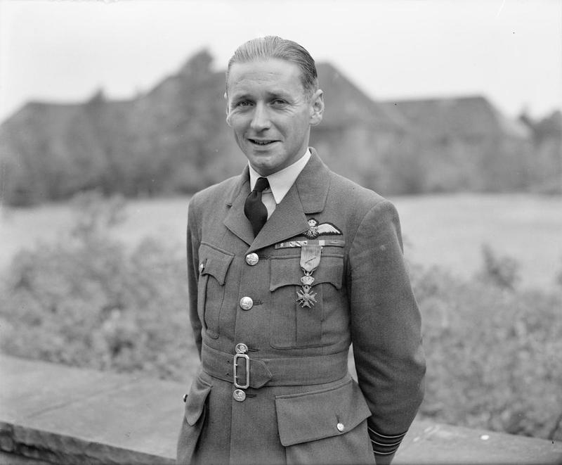 Royal Air Force- British Air Forces of Occupation, 1945. Wing Commander R H Harries wearing the Belgian Croix de Guerre and Palm after an investiture at B116/Wunstorf, Germany. Harries shot down 20.25 enemy aircraft during the war, commencing his score in March 1942, as a flight commander with No. 131 Squadron RAF. He commanded No. 91 Squadron RAF from December 1942 until August 1943, bringing his score to 12. After promotion to Wing Commander, Harries added a further 5 victories before departing on a lecture tour in the United States. On his return in early 1944 he took over 135 Wing of the 2nd Tactical Air Force, which he led until February 1945. At the time this photograph was taken, Harries was Wing Commander (Training) at No. 84 Group.